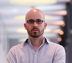 Nacho Alvarez Peralta